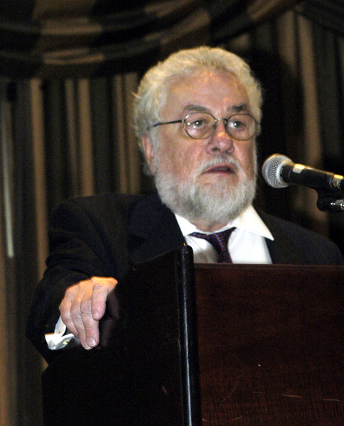 Official US Department of Defense photo of Adrian Cronauer, who is special assistant to an assistant secretary for MIA's